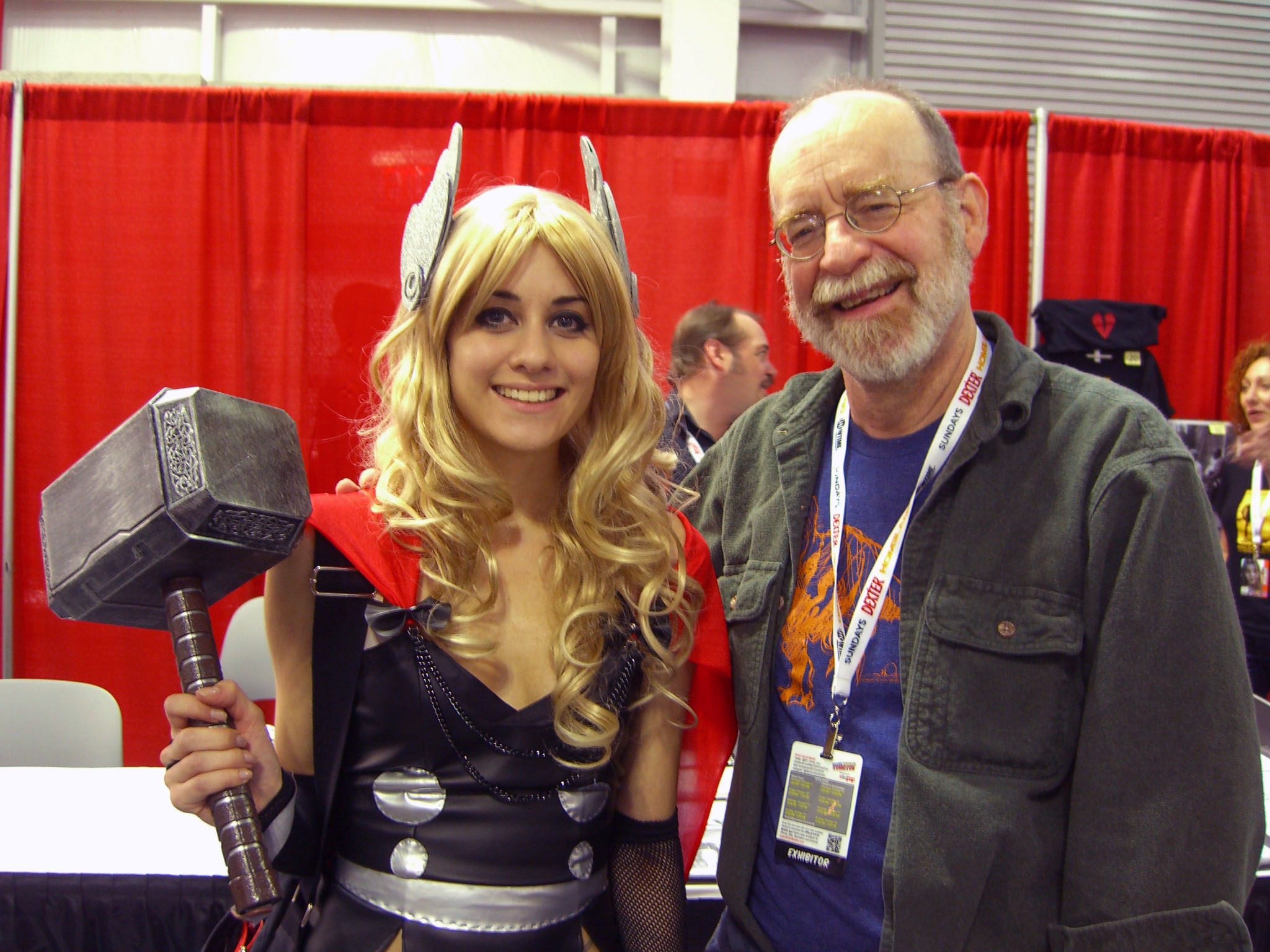 Raurenu, a cosplayer dressed as Marvel Comics' Thor, and comics writer/artist Walt Simonson, who rose to fame in the 1980s for his work on that title, in Artists Alley on Day 3 of the 2012 New York Comic Con, Saturday October 13, 2012 at the Jacob K. Javits Convention Center in Manhattan. This photo was created by Luigi Novi. It is not in the public domain, and use of this file outside of the licensing terms is a copyright violation.